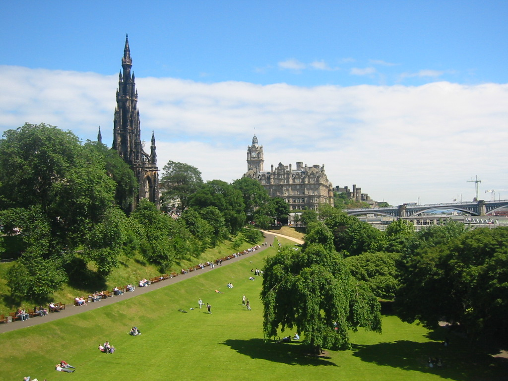 The Princes Street Gardens and some buildings - left to right, the Scott Monument, the North British Hotel, Nelson's Monument and the City Observatory on Calton Hill, two bridges (Waverley in the foreground, North in the back), rooftops of Waverley Station - in Edinburgh, Scotland. Source: Jaakko Sakari Reinikainen (ulayiti)